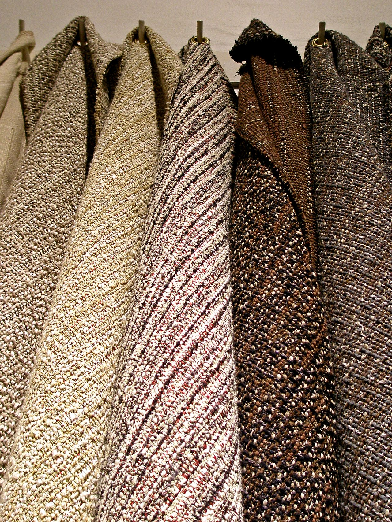 Tweed fabric hanging from hooks.